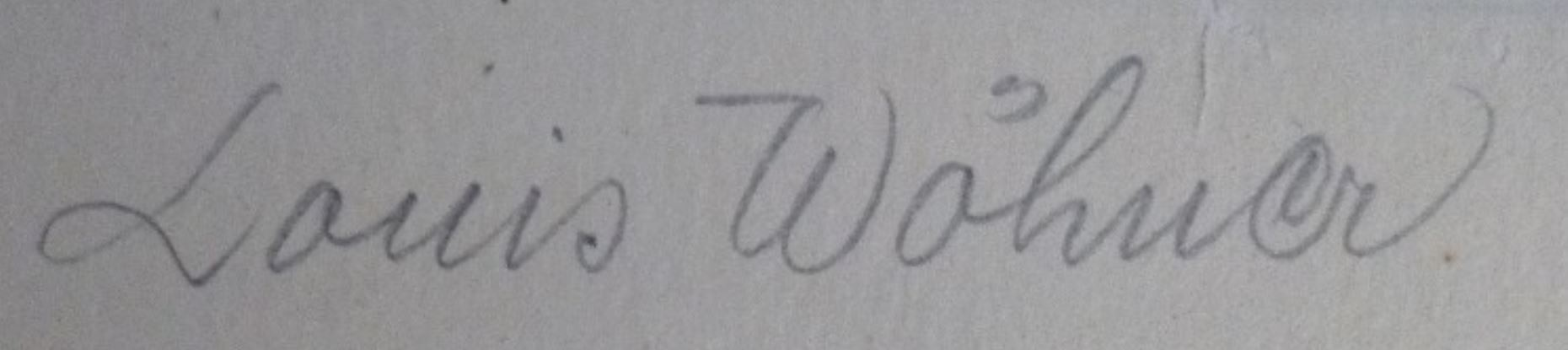 Signature of Louis Wöhner